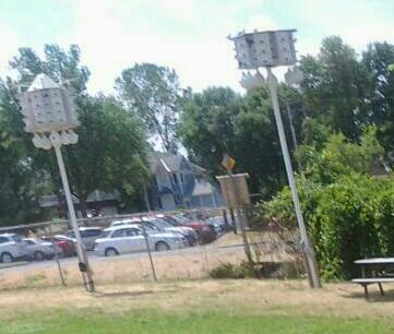 Nepean Sailing Club, Lac Deschenes, Dick Bell Park, Ottawa, Ontario, Canada: martens houses.